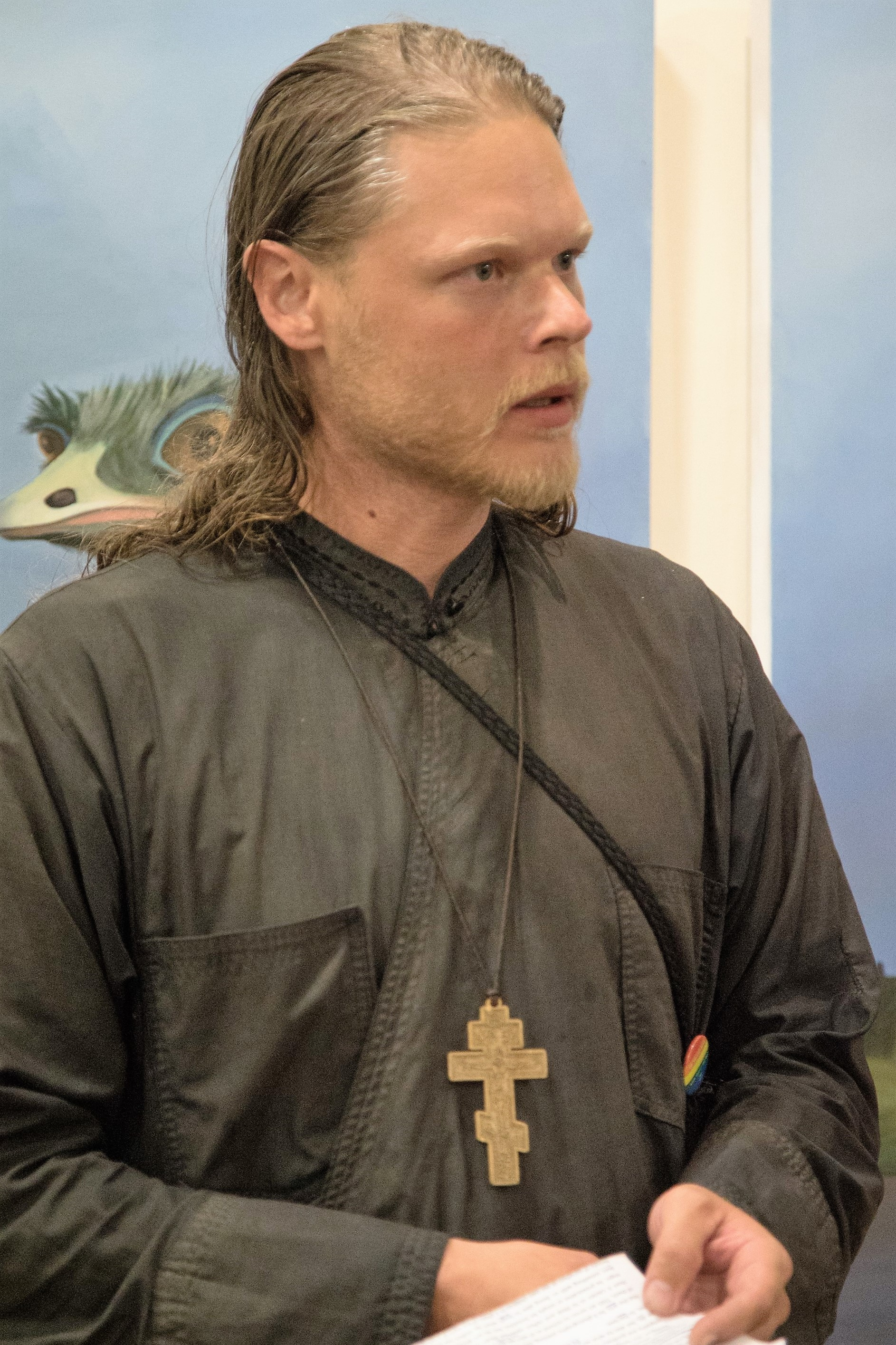 Father Christoforos Schuff speaks at an art exhibition opening in Mytilene, Greece in June, 2016